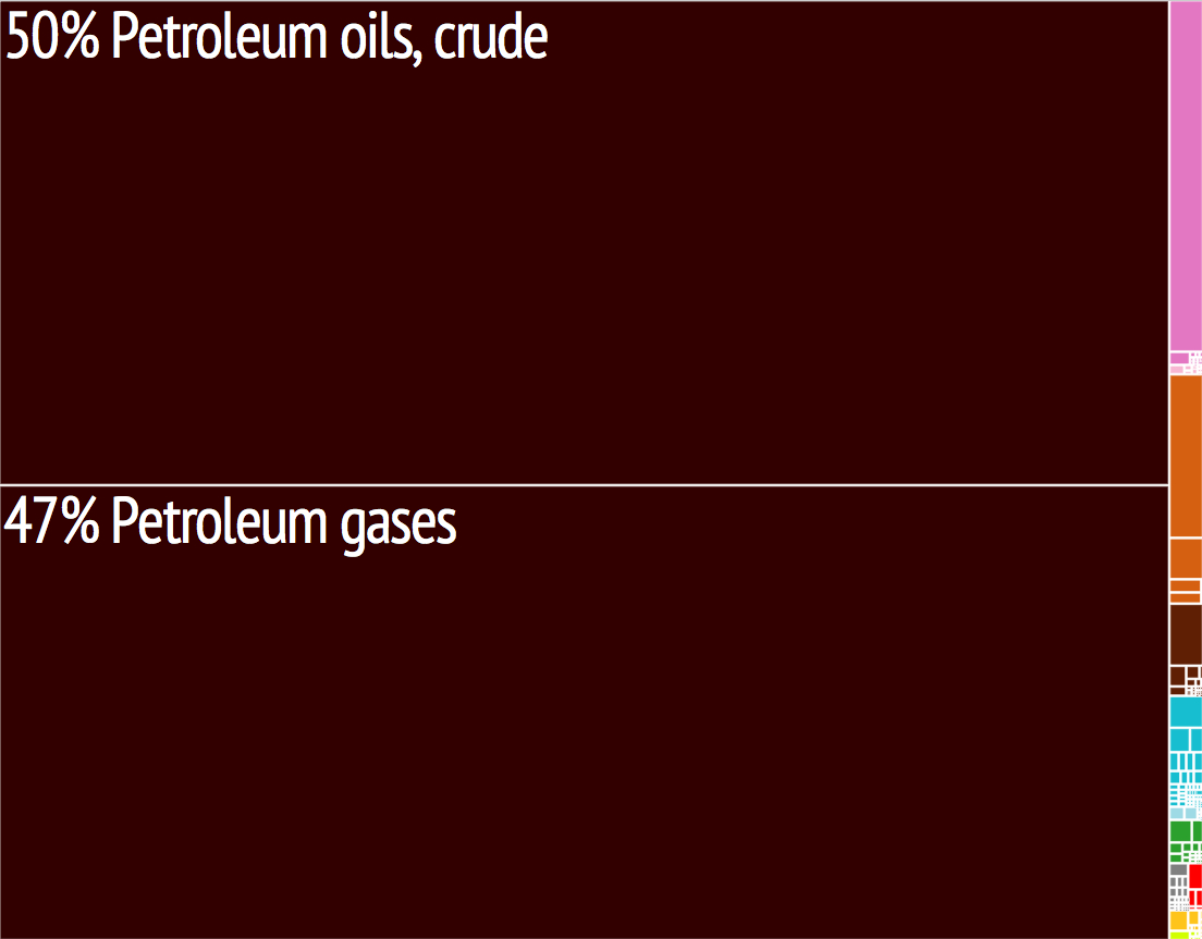 Brunei Export Treemap from MIT Harvard Economic Observatory